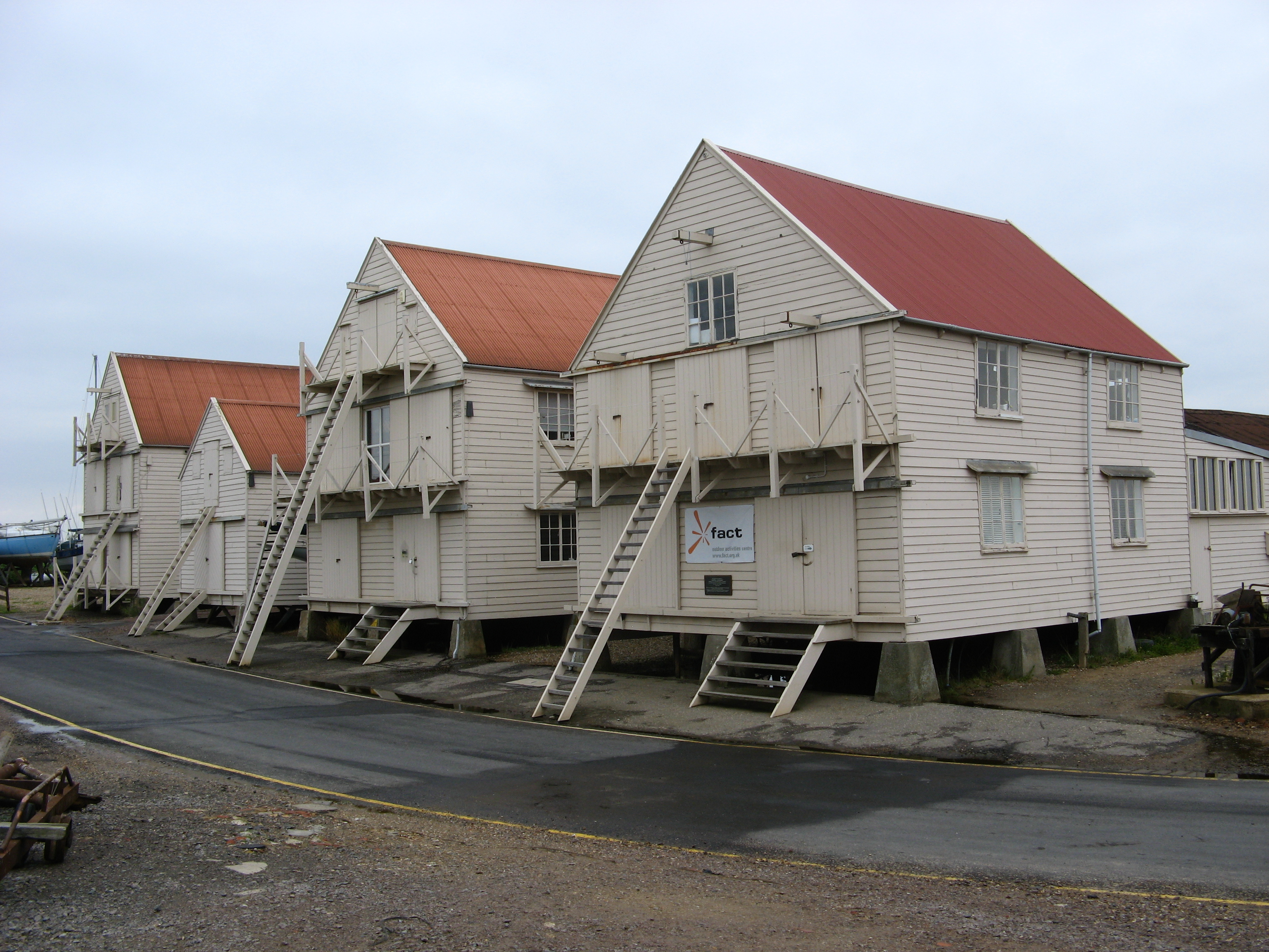 Yacht stores, sometimes known as "Sail Lofts", in Tollesbury, Essex, England.